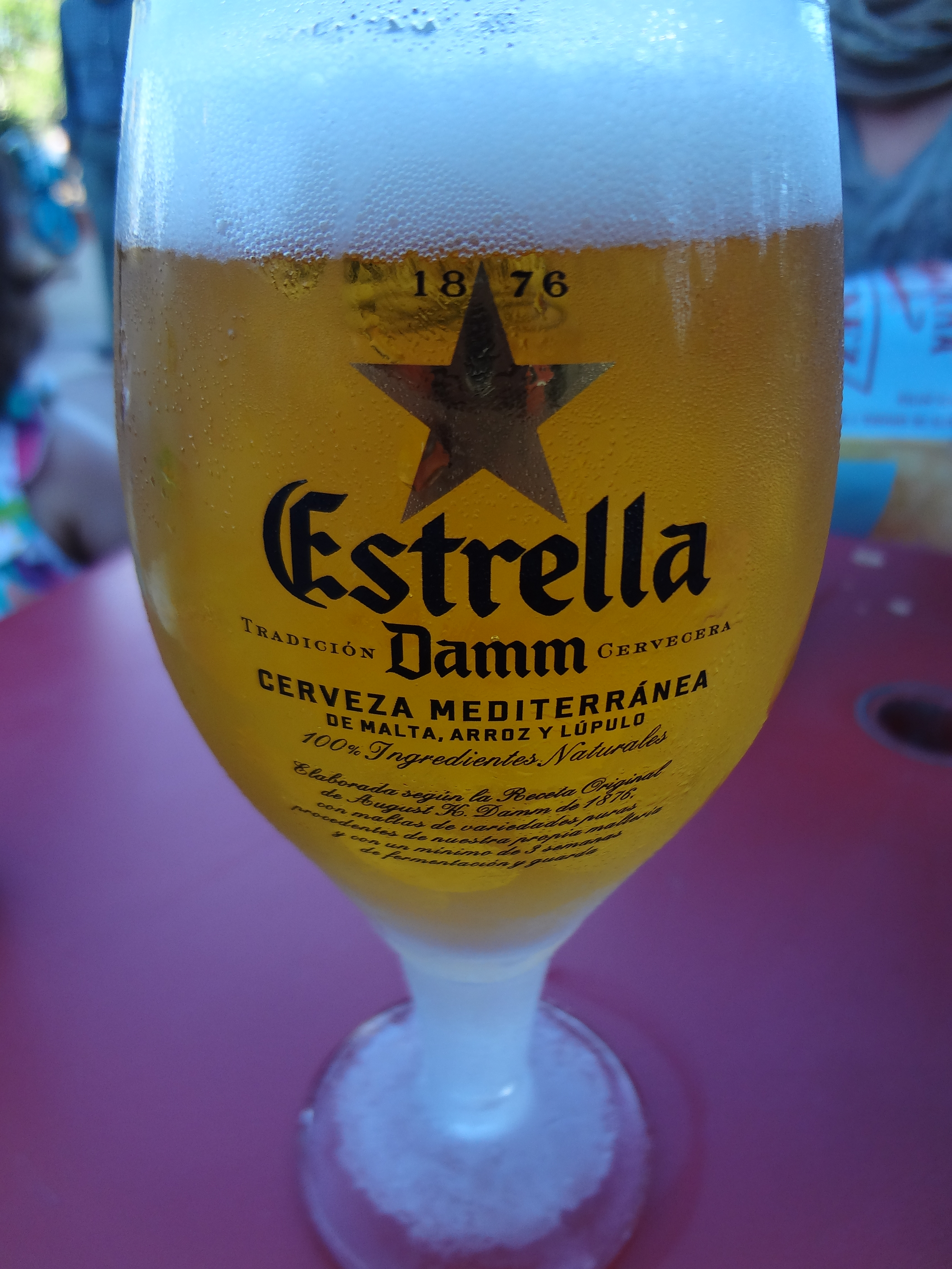 Estrella Damm is a pilsner beer, brewed in Barcelona, Catalonia, Spain. It has existed since 1876